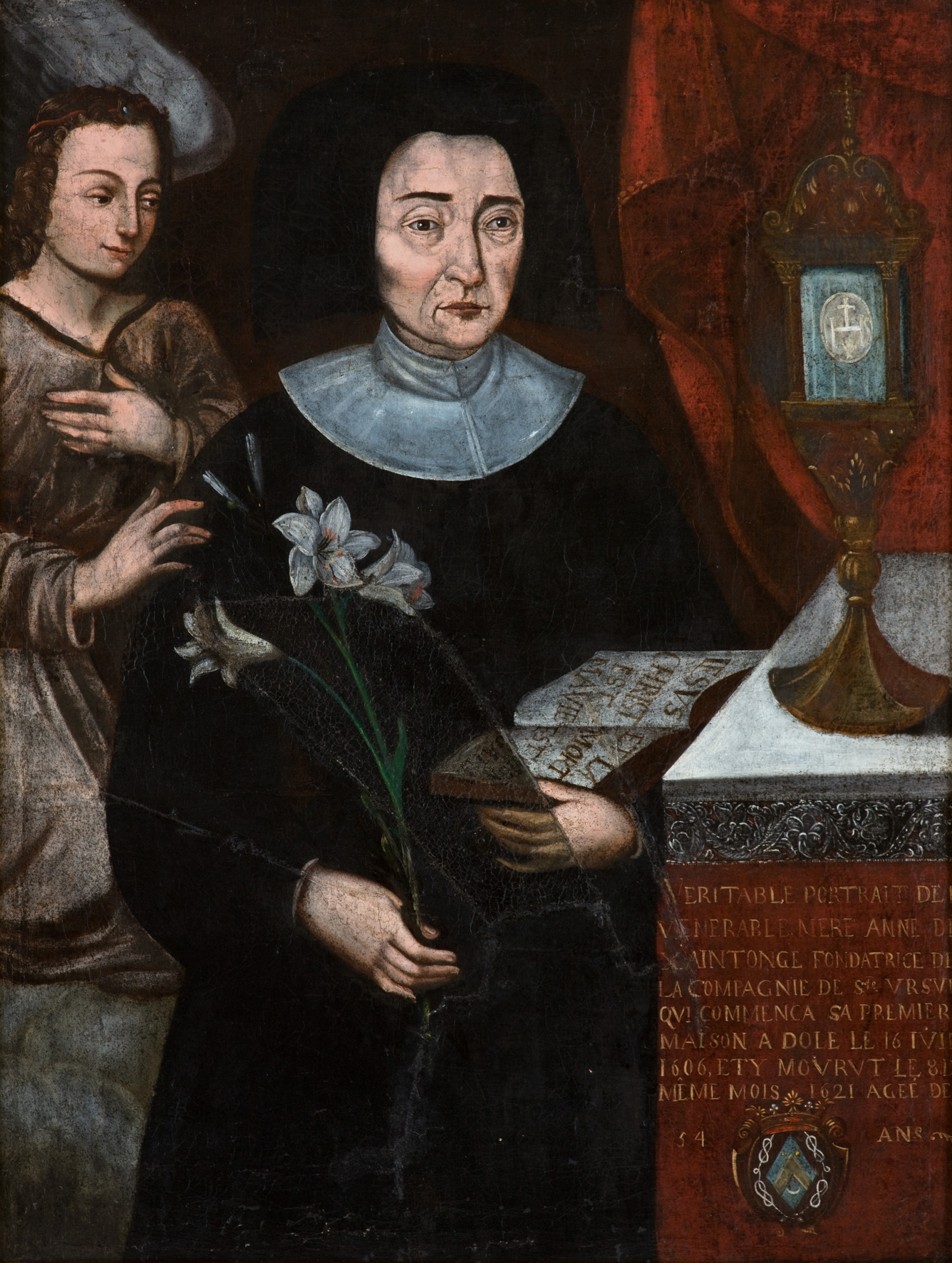 Painting of Anne de Xainctonge (1567-1621)